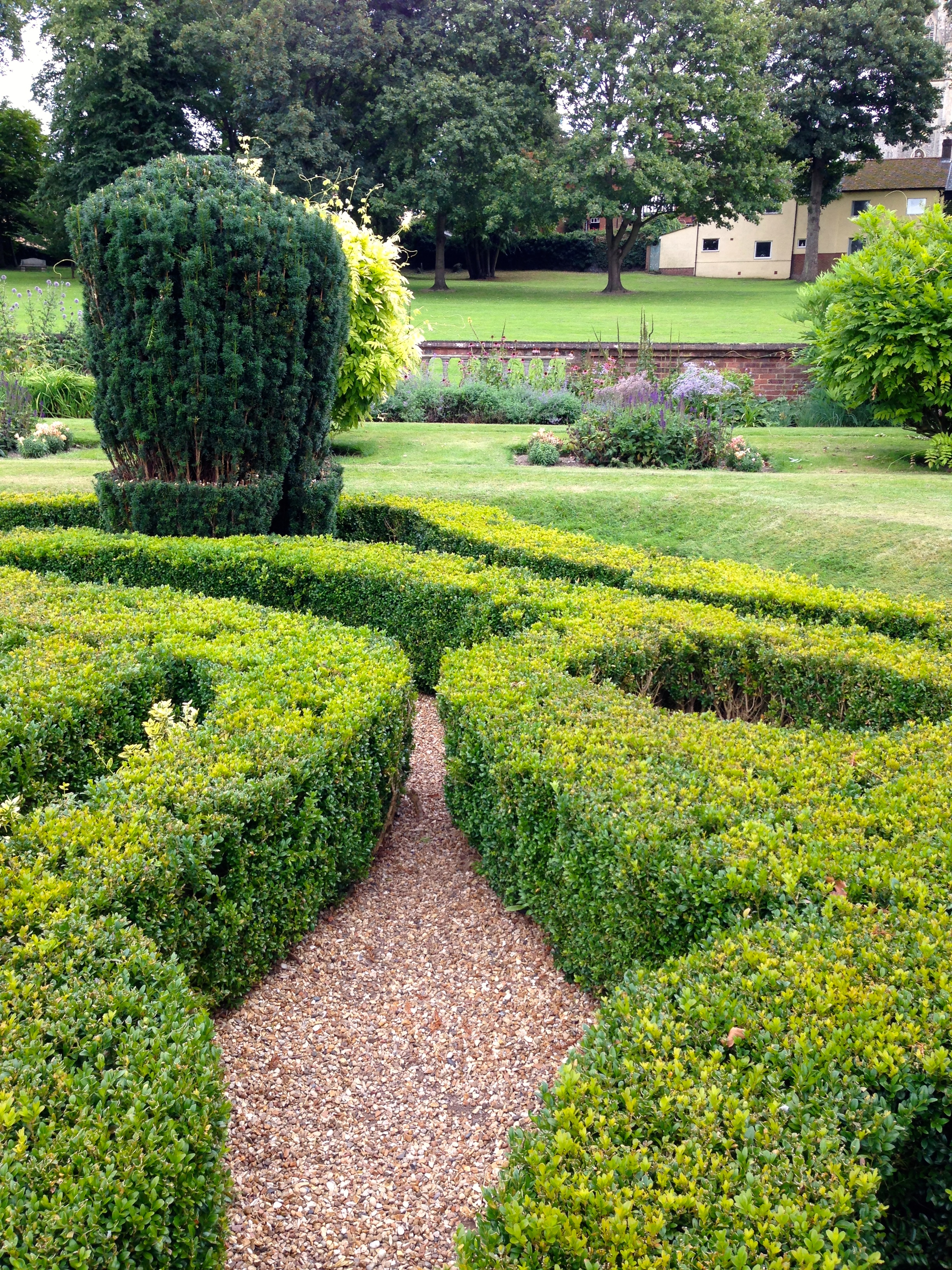 Bridge End Gardens is a group of seven linked gardens in the town of Saffron Walden. Created in the 19th century by the Gibson family – noted benefactors to the town – the public gardens are Grade II* listed